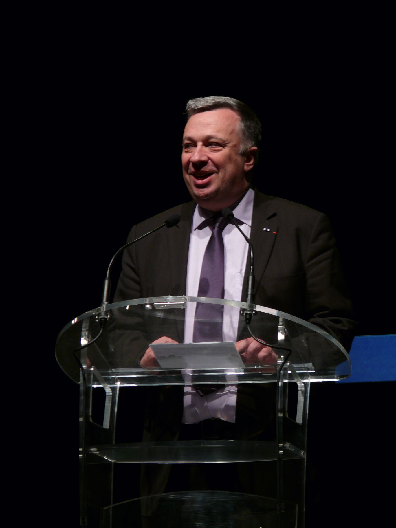 The rector Alexandre Steyer at Ecclesia Campus 2012 in Rennes (Ille-et-Vilaine, Bretagne, France).